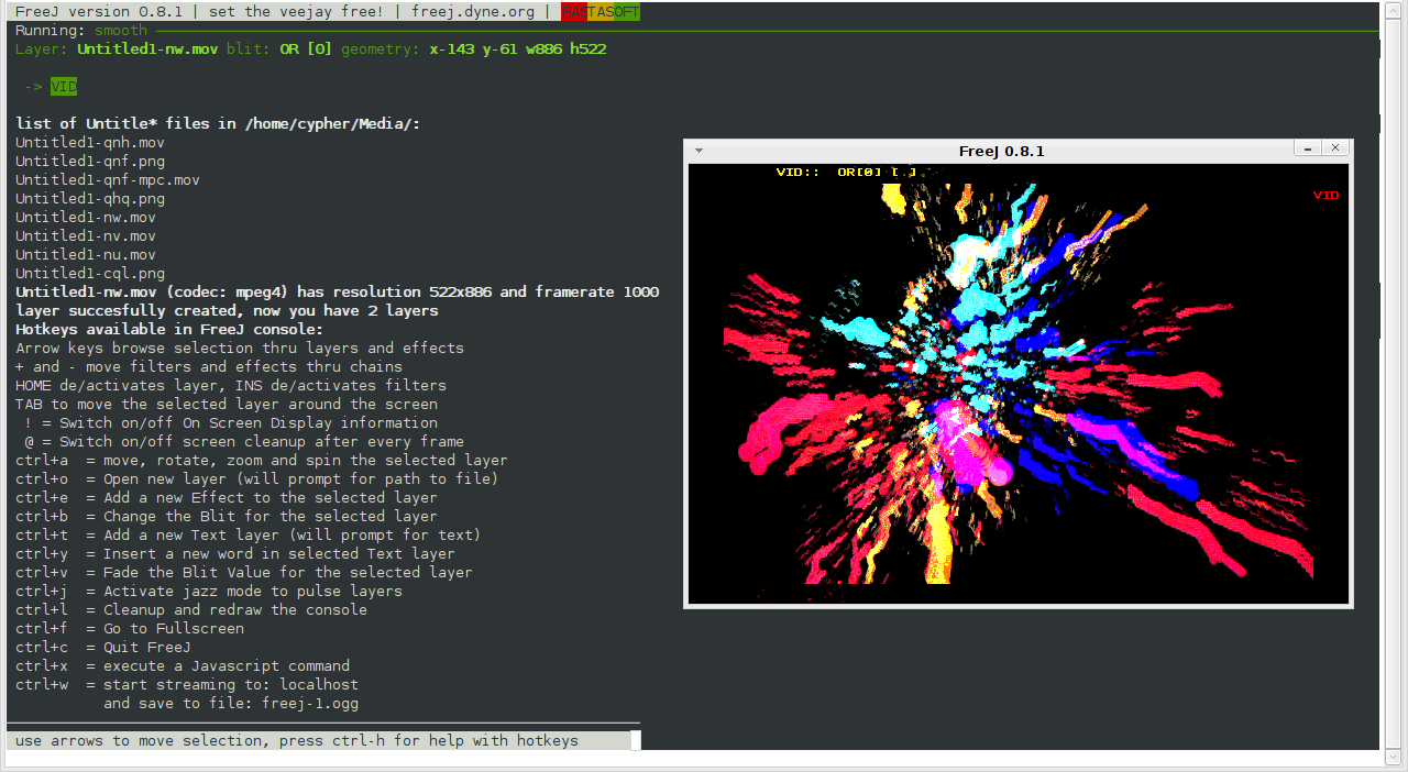 Freej running on Ubuntu 7.10